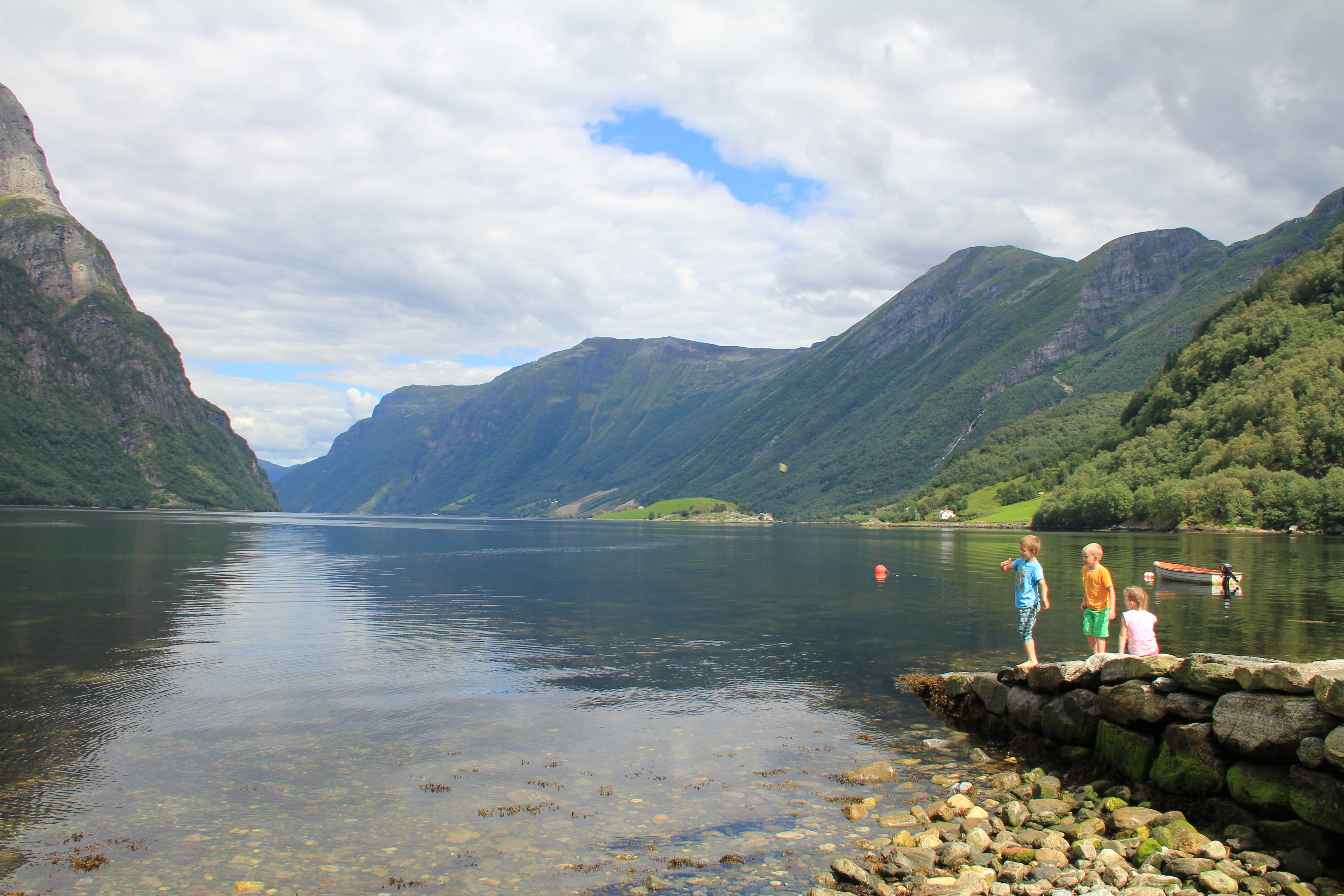 Hyenfjorden in Gloppen, seen from Straume, Hyen